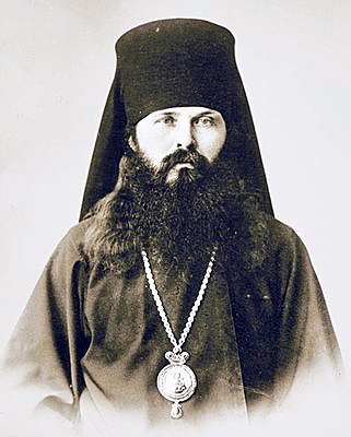 Bishop Innokentiy Figurovsky